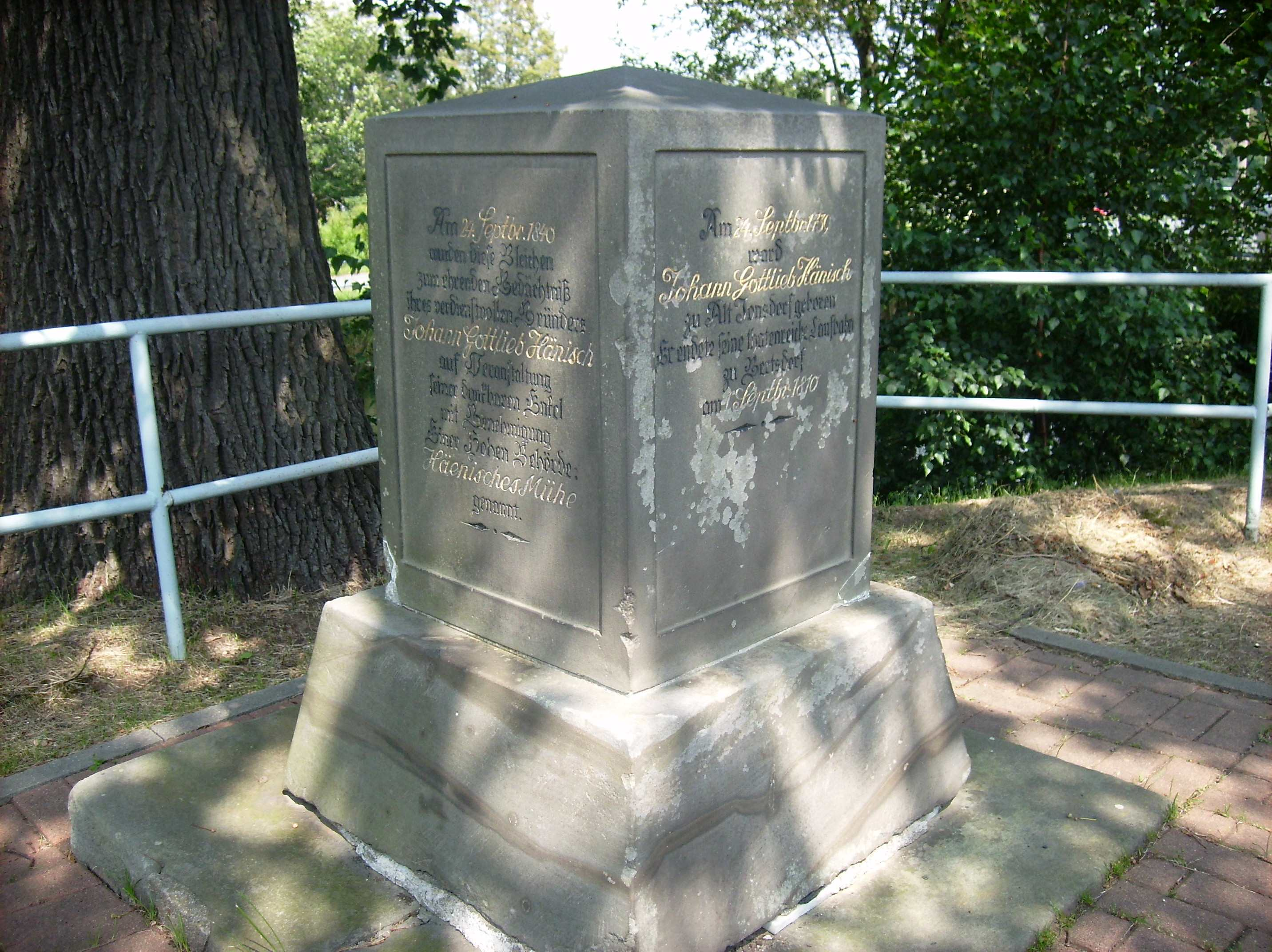 Memorial to J.G. Hänisch in Hänischmühe (Jonsdorf, Görlitz district, Saxony)